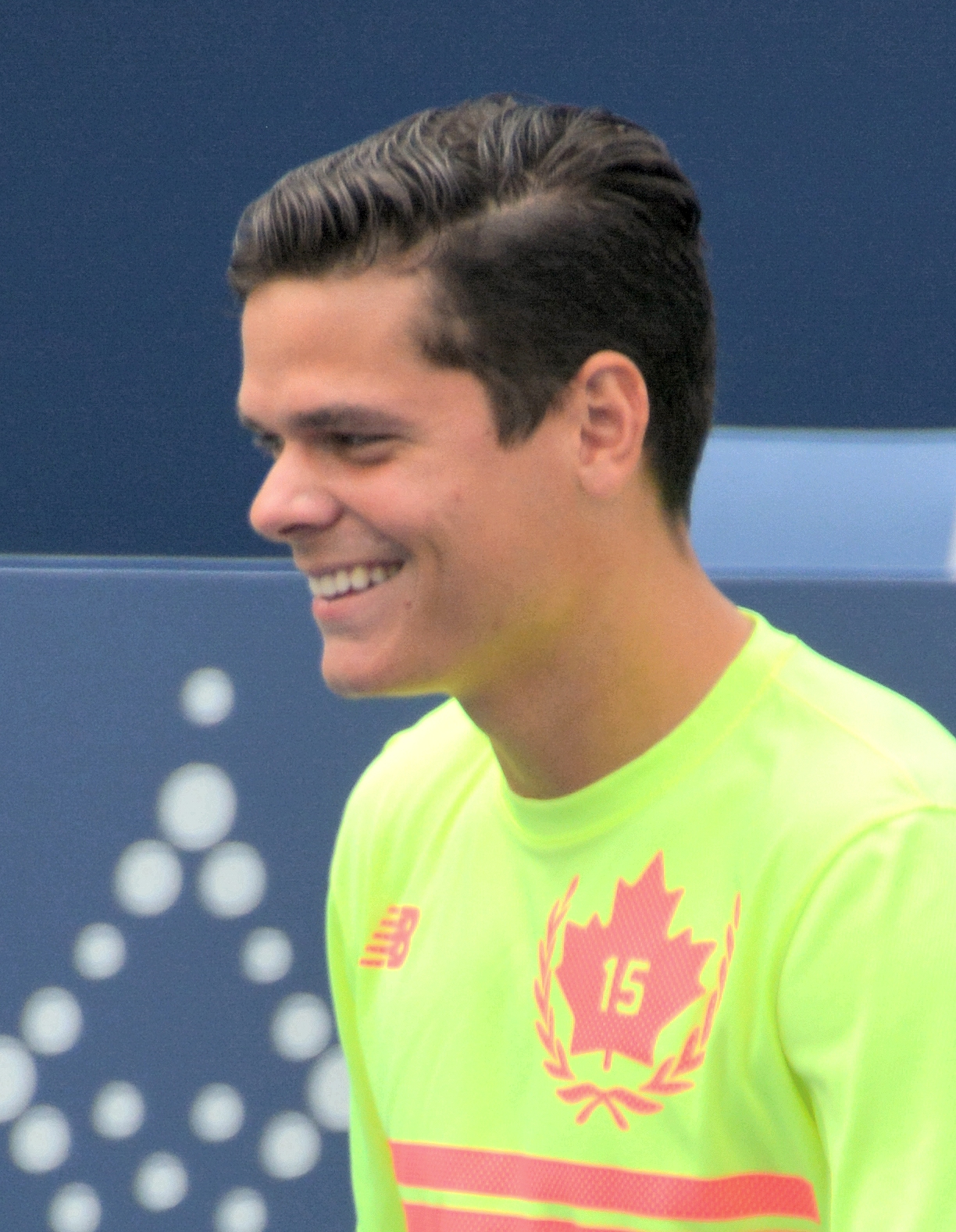 Hitting tennis balls with the mayor of Montreal.